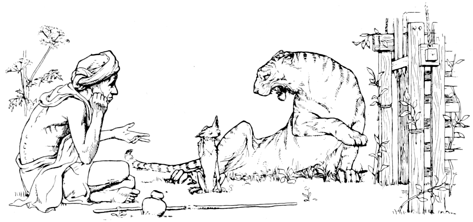 inset illustration of the story The Tiger, the Brahmin and the Jackal from the book of English adaptations of the fairy tales of India.